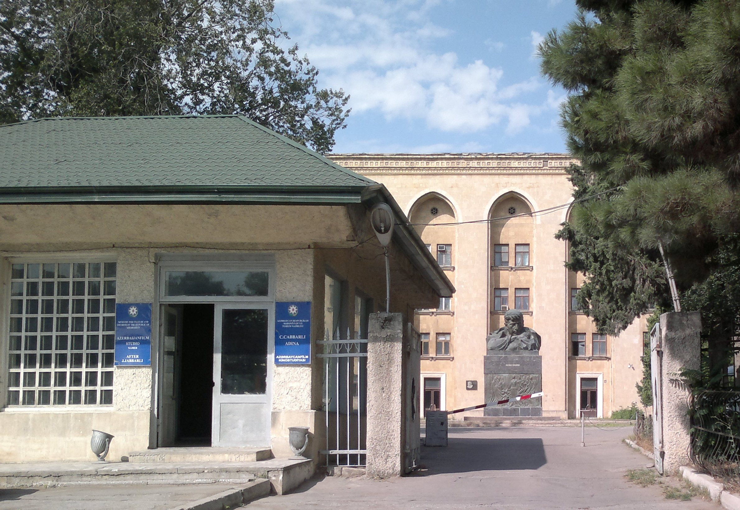 Azerbaijanfilm studio's entry. Baku